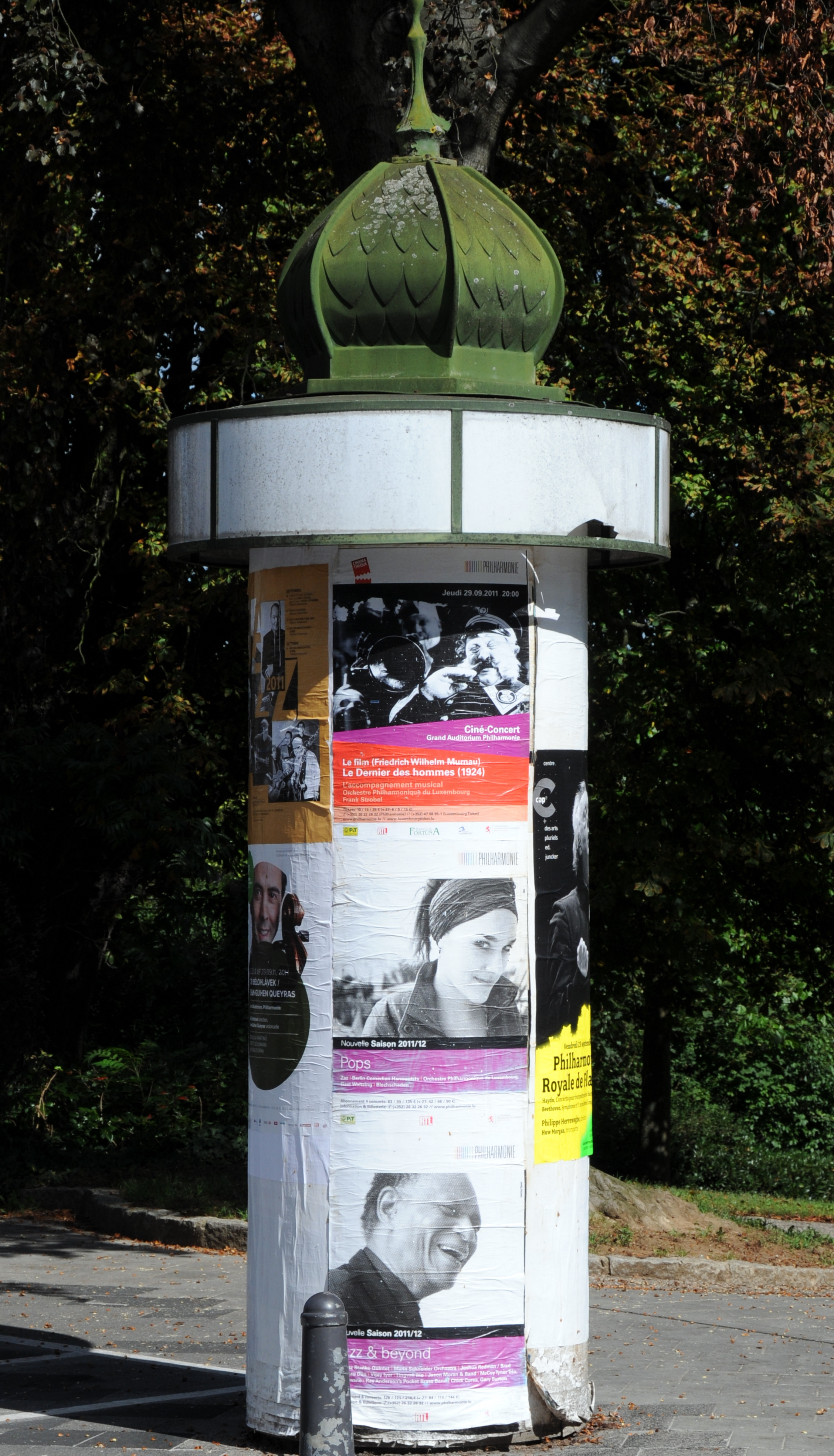 Advertising column, square Robert Brasseur, Luxembourg City.